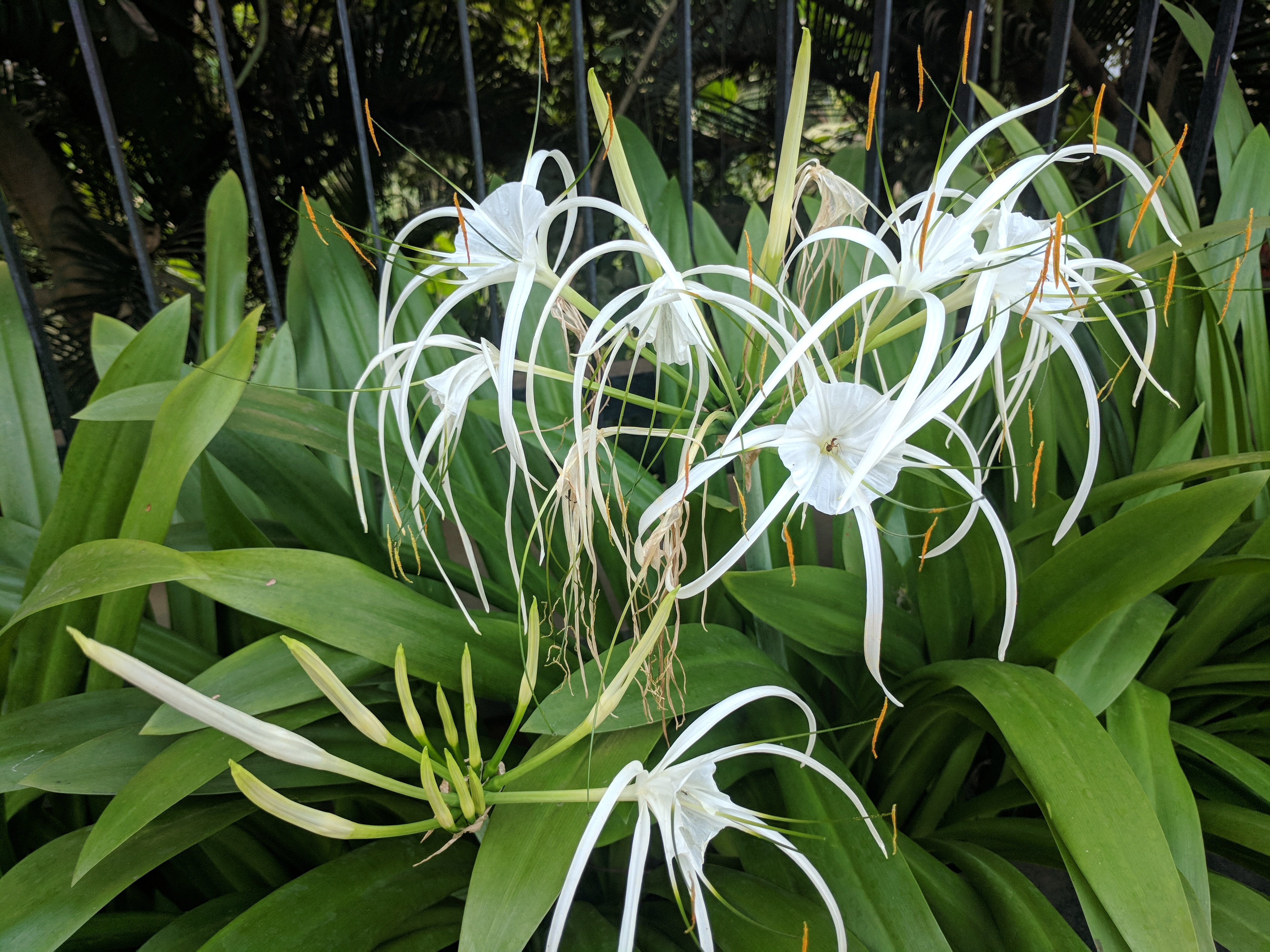 plantlife